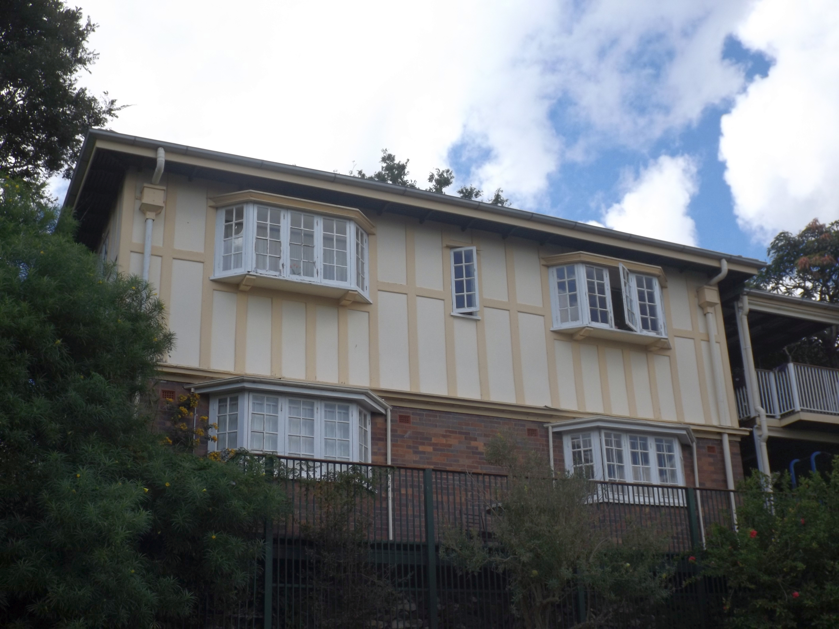 Photo of Scott Street Flats from riverside park at Kangaroo Point, Brisbane, Queensland, Australia.